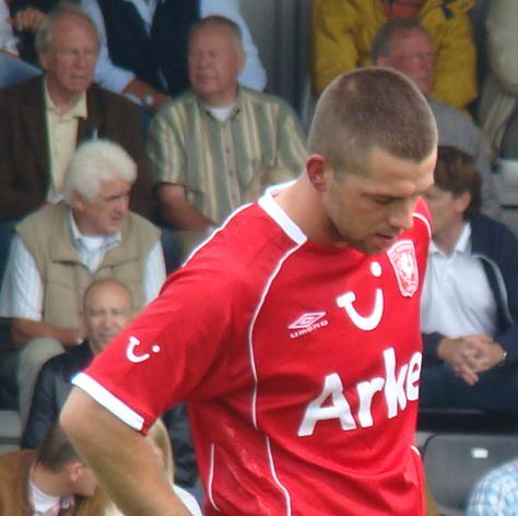 Image of the FC Twente-player Theo Janssen